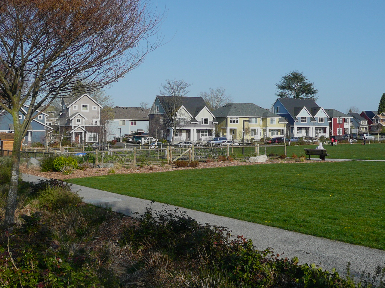 High Point neighborhood in West Seattle, WA, USA. Open common space and variety of new housing.